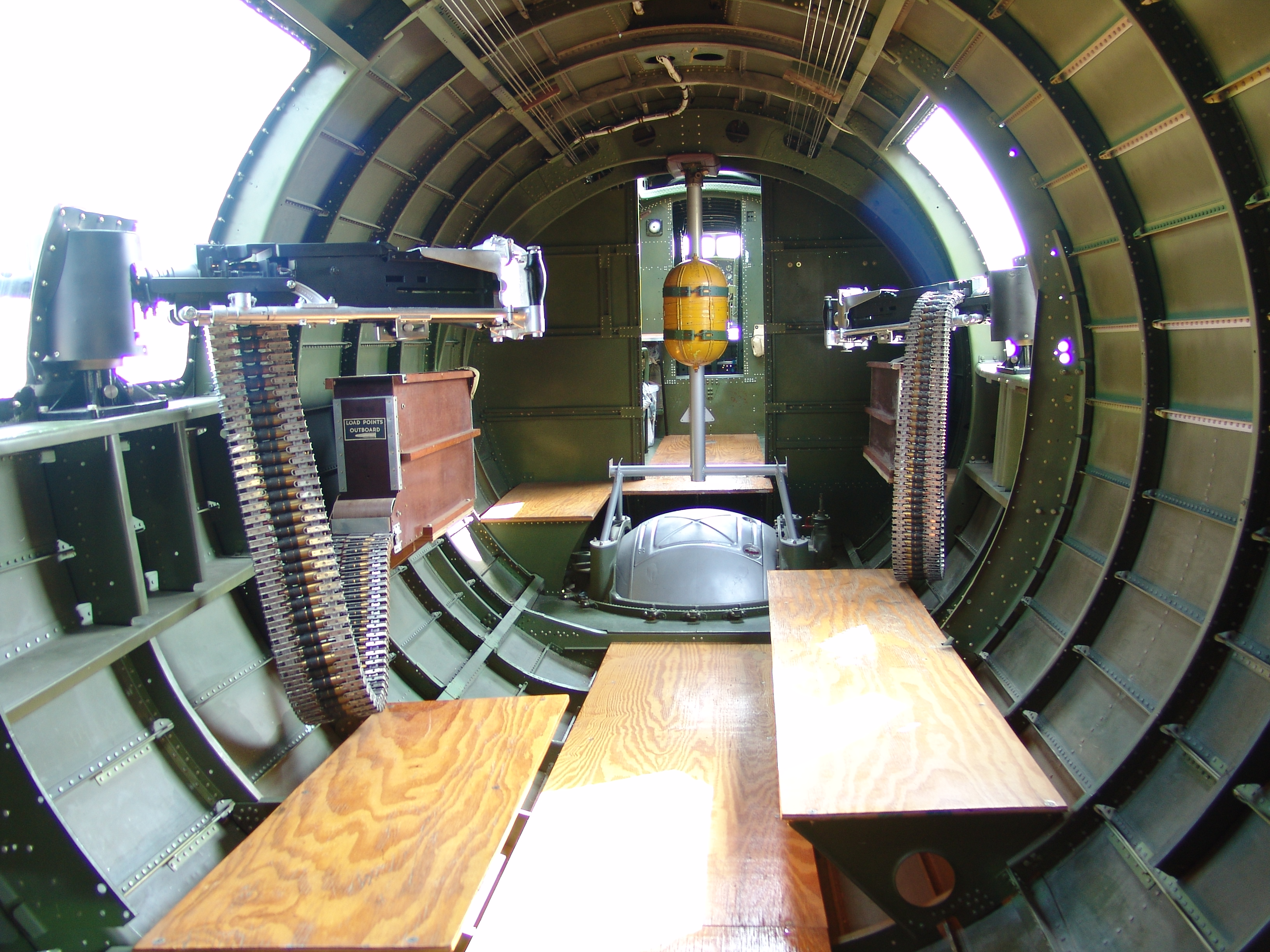 At the back of the Liberty Belle, looking forward, on display at the 2005 Lumberton Celebration of Flight. I took the picture. Shown in this photo is the interior of a B-17 G. Contrary to earlier versions of the B-17, the G series introduced staggered waist windows (so that the waist gunners wouldn’t interfere with each other when firing their guns), plus it was the first version of the B-17 that had plexiglass window panes in the waist. Previous versions of the B-17 had non-paned (open) windows, so that the waist gunners had to wear electrically heated overalls to prevent freeze at travel altitude.